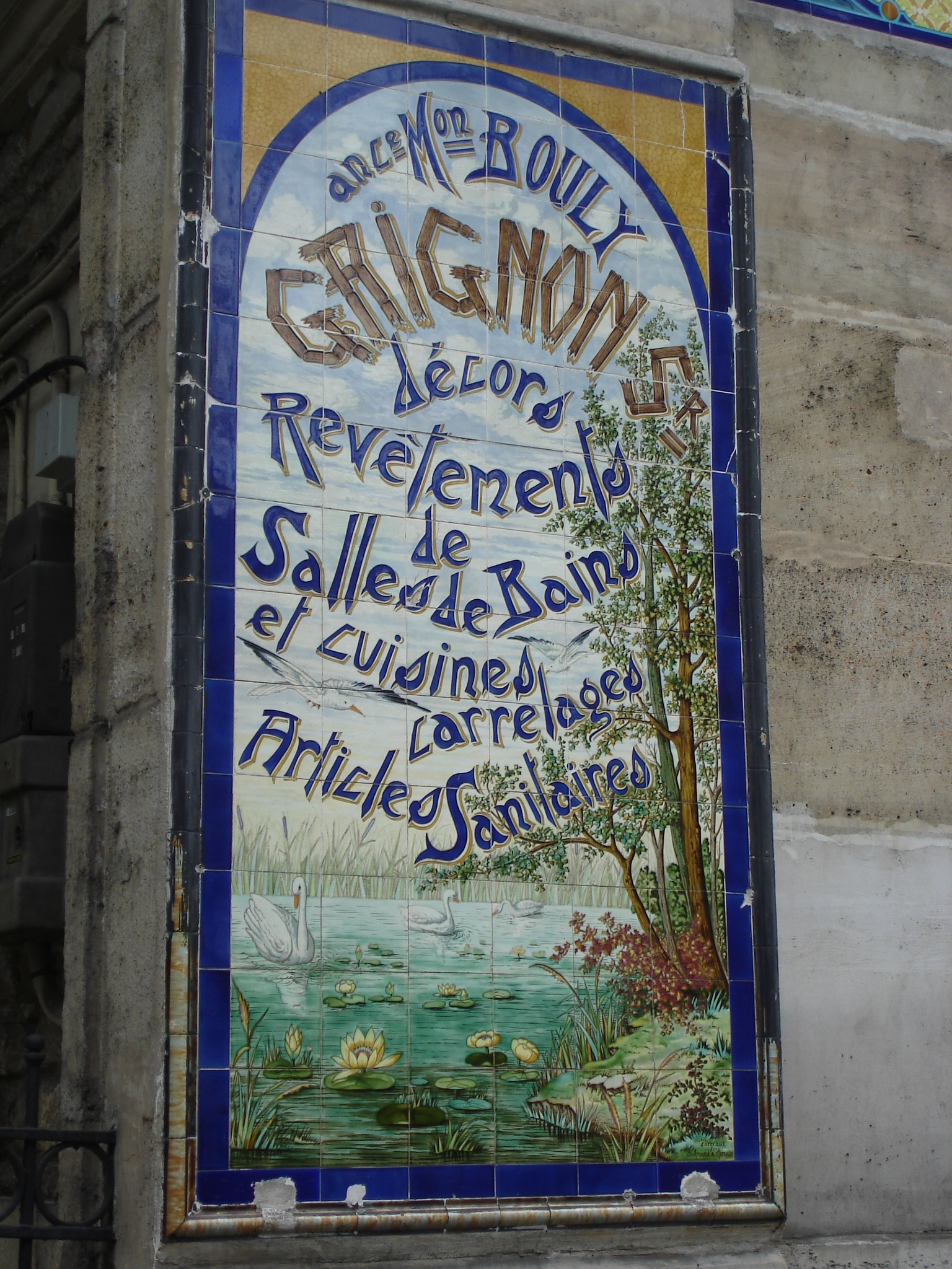 140 Boulevard Richard Lenoir (Paris): former wholesaler in tiles and other accessories for bathrooms and kitchens. Advertisement in tiles